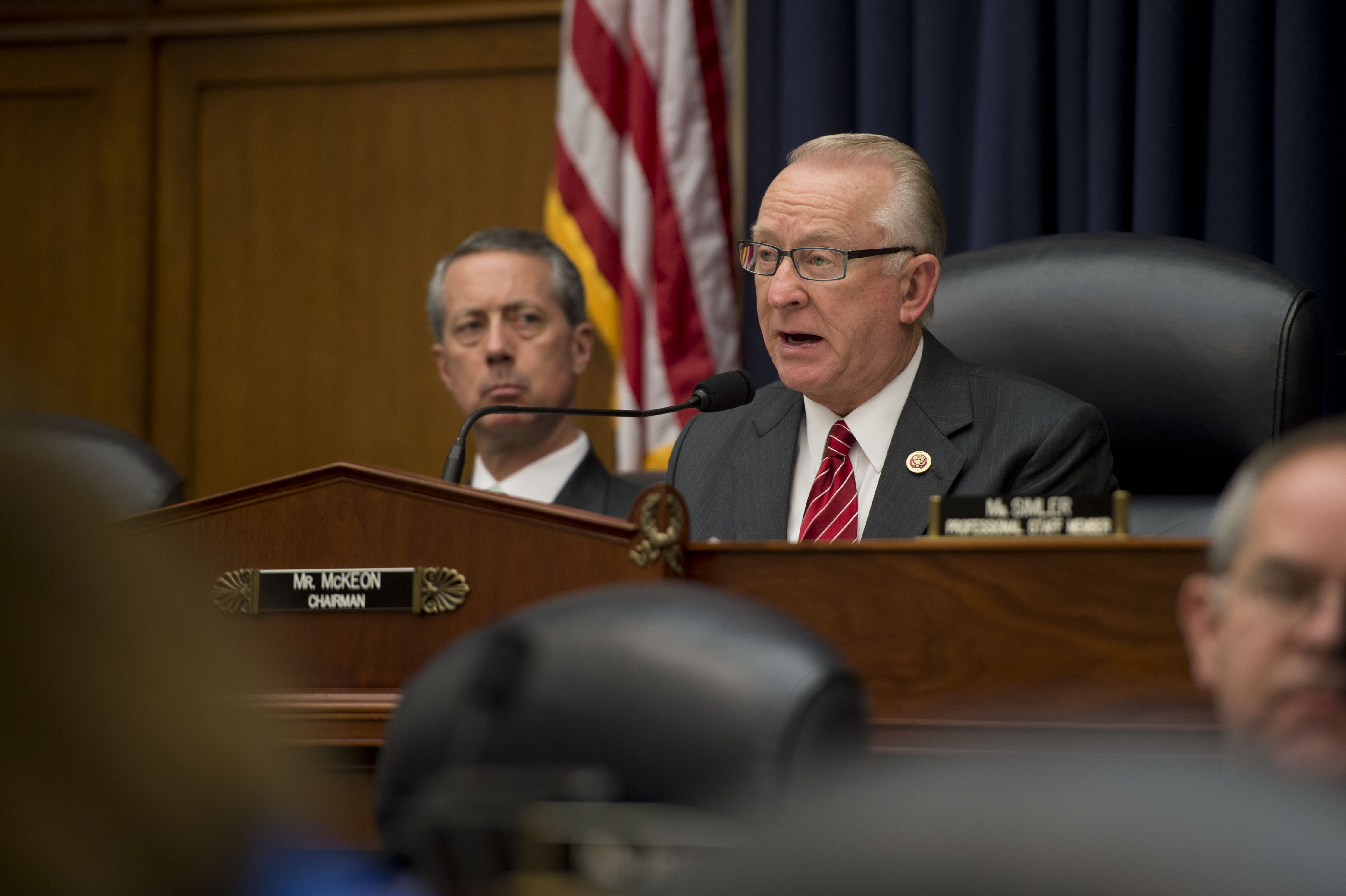 U.S. Congressman Buck McKeon, chairman of the House Armed Services Committee questions Secretary of Defense, Chuck Hagel during testimony on the fiscal year 2014 National Defense Authorization Budget Request at the Rayburn House Office Building in Washington D.C., April 11, 2013. Chairman of the Joint Chiefs of Staff Gen. Martin E. Dempsey and Under Secretary of Defense-Comptroller Robert Haile joined Hagel for the testimony. (DoD photo by Erin A. Kirk-Cuomo)(Released)